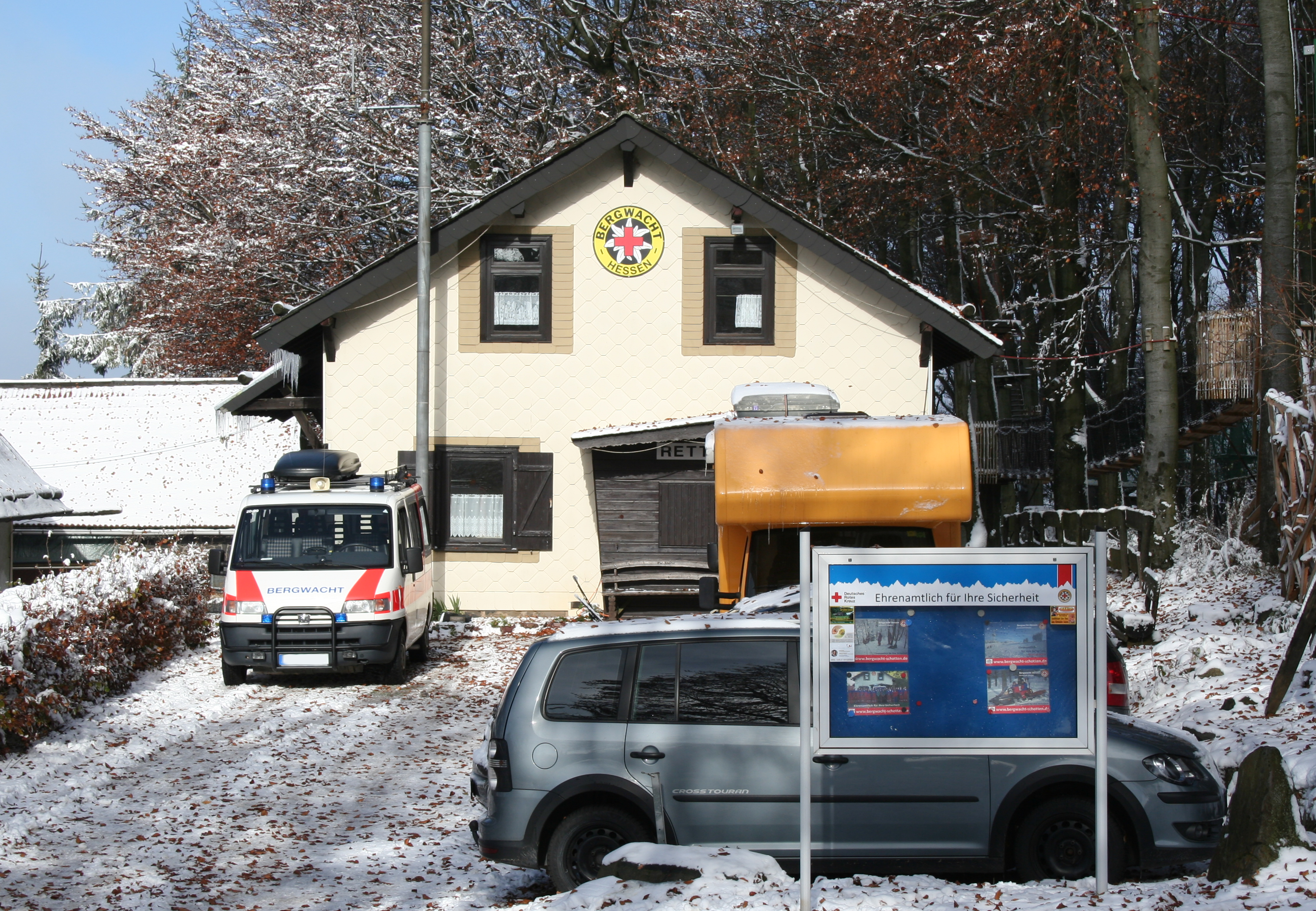 Mountain rescue, Hoherodskopf / Schotten / Hesse / Germany